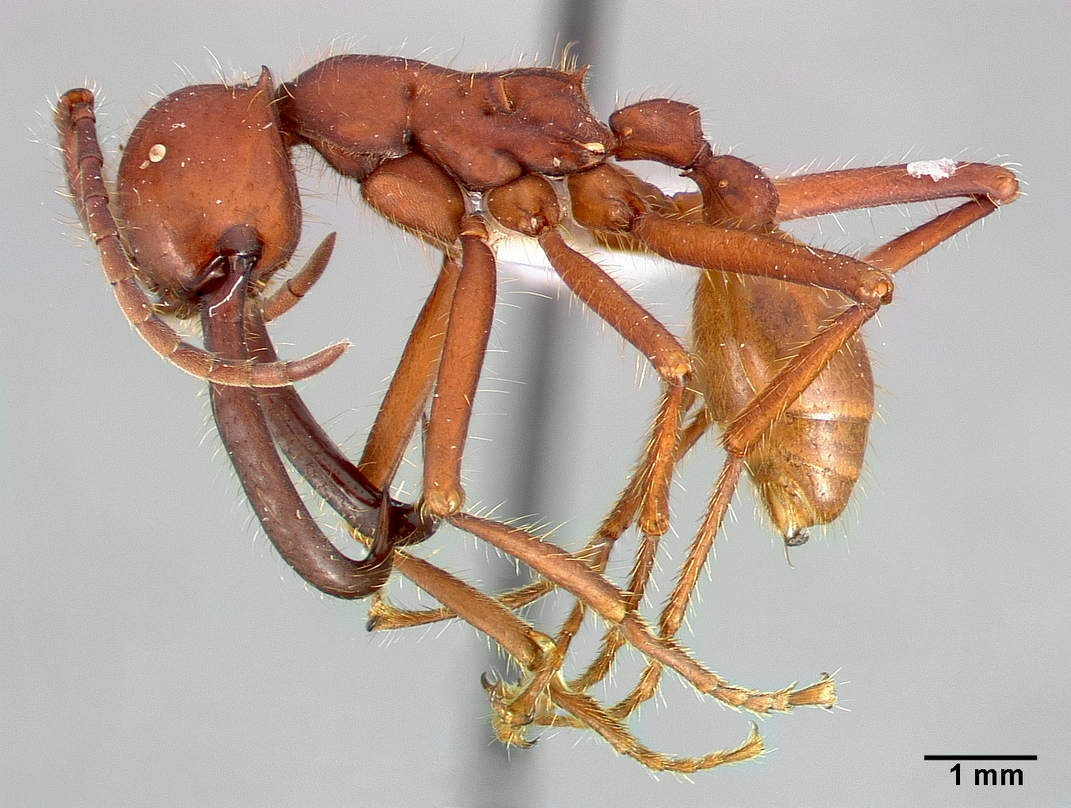 Profile view of ant Eciton mexicanum specimen casent0006116.